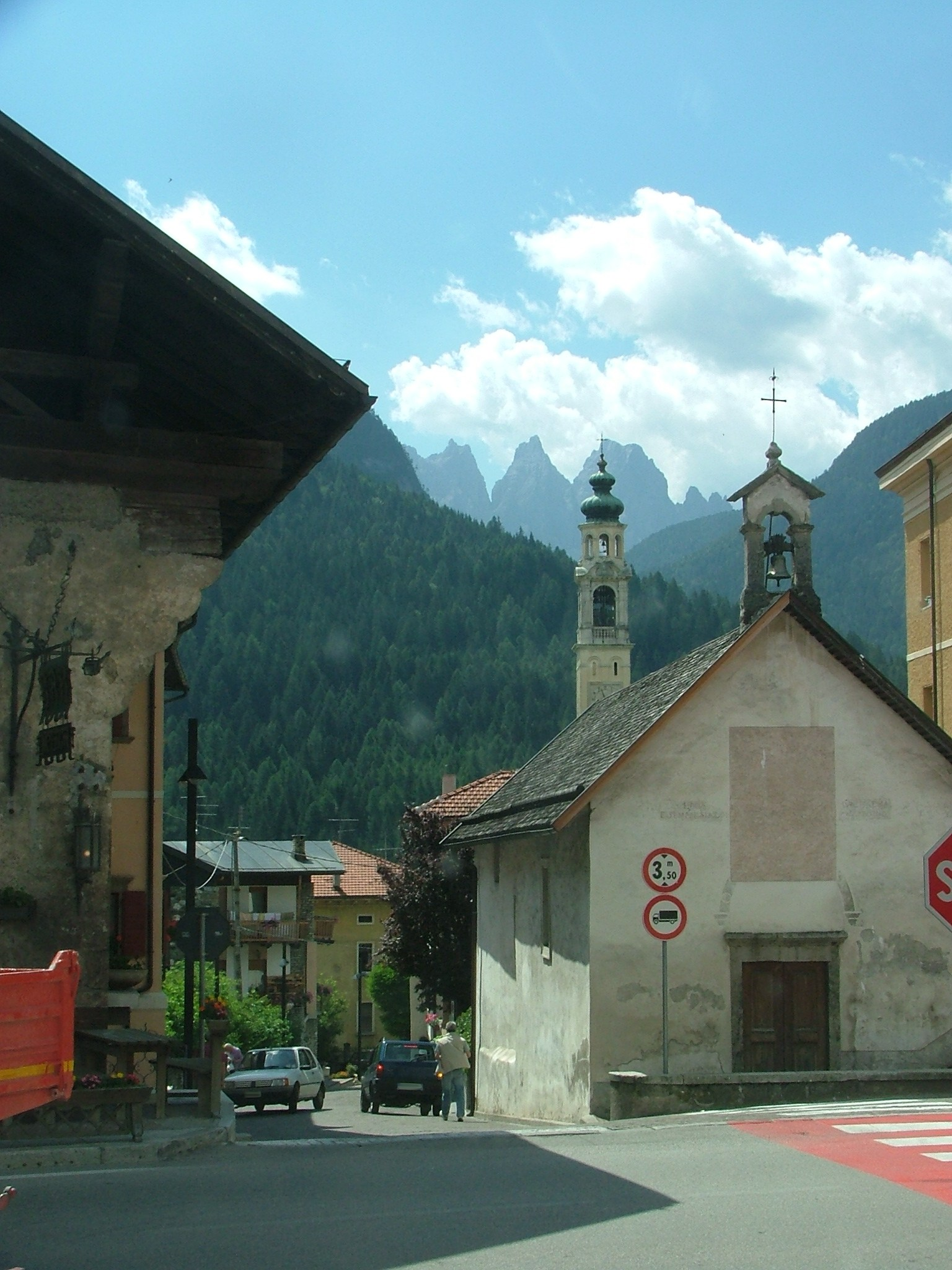 San Rocco church and San Giorgio bellfry in Domegge di Cadore, Province of Belluno,Dolomites Veneto, Italy. In the background, from left to right: Cima Cadin di Toro, Cima Cadin di Vedorcia, Cima Cadin degli Elmi and the lower peaks of Creste di Santa Maria.